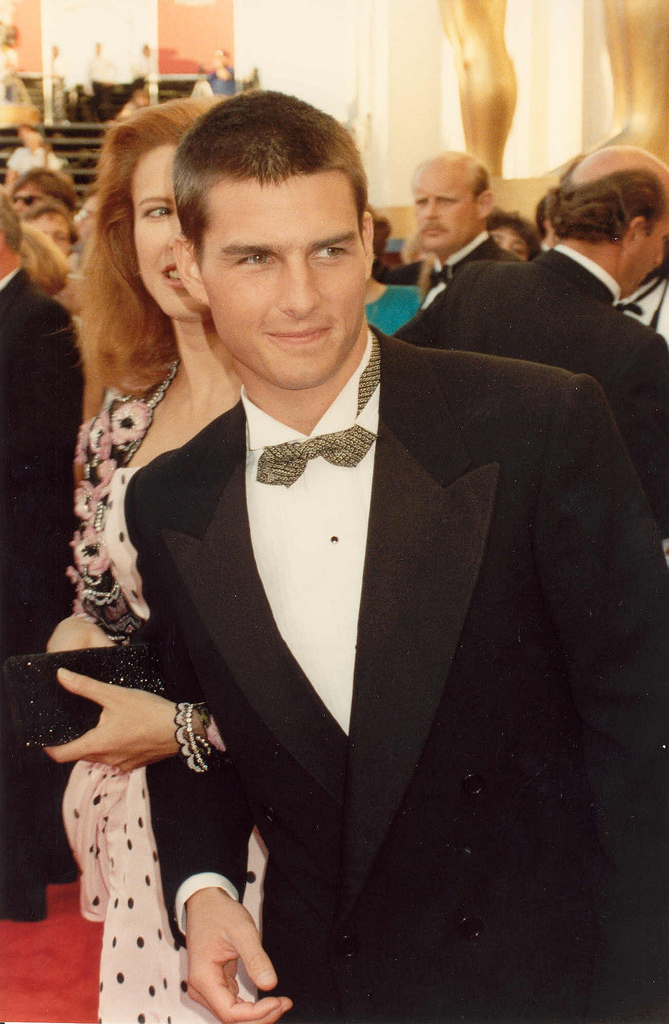 Tom Cruise taken at 61st Academy Awards 3/29/89